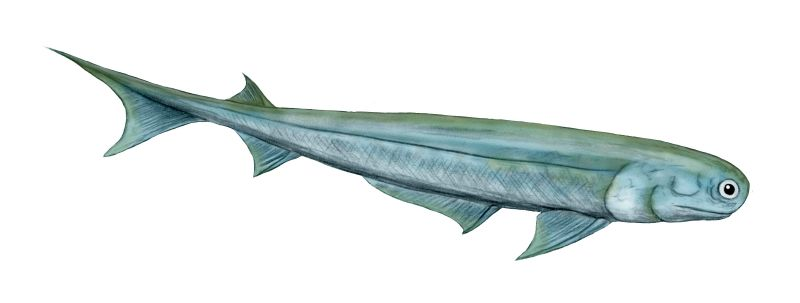 Acanthodes bronni, an acanthodian from the Early Permian of Germany, pencil drawing Ref : Janvier, P. (2001) "Ostracoderms and the shaping of gnathostome characters" in Ahlberg, P.E. , ed. Major Events in Early Vertebrate Evolution: Palaeontology, Phylogeny, Genetics and Development, CRC Press, p. 175 Retrieved on 11 January 2009. ISBN: 0415233704.